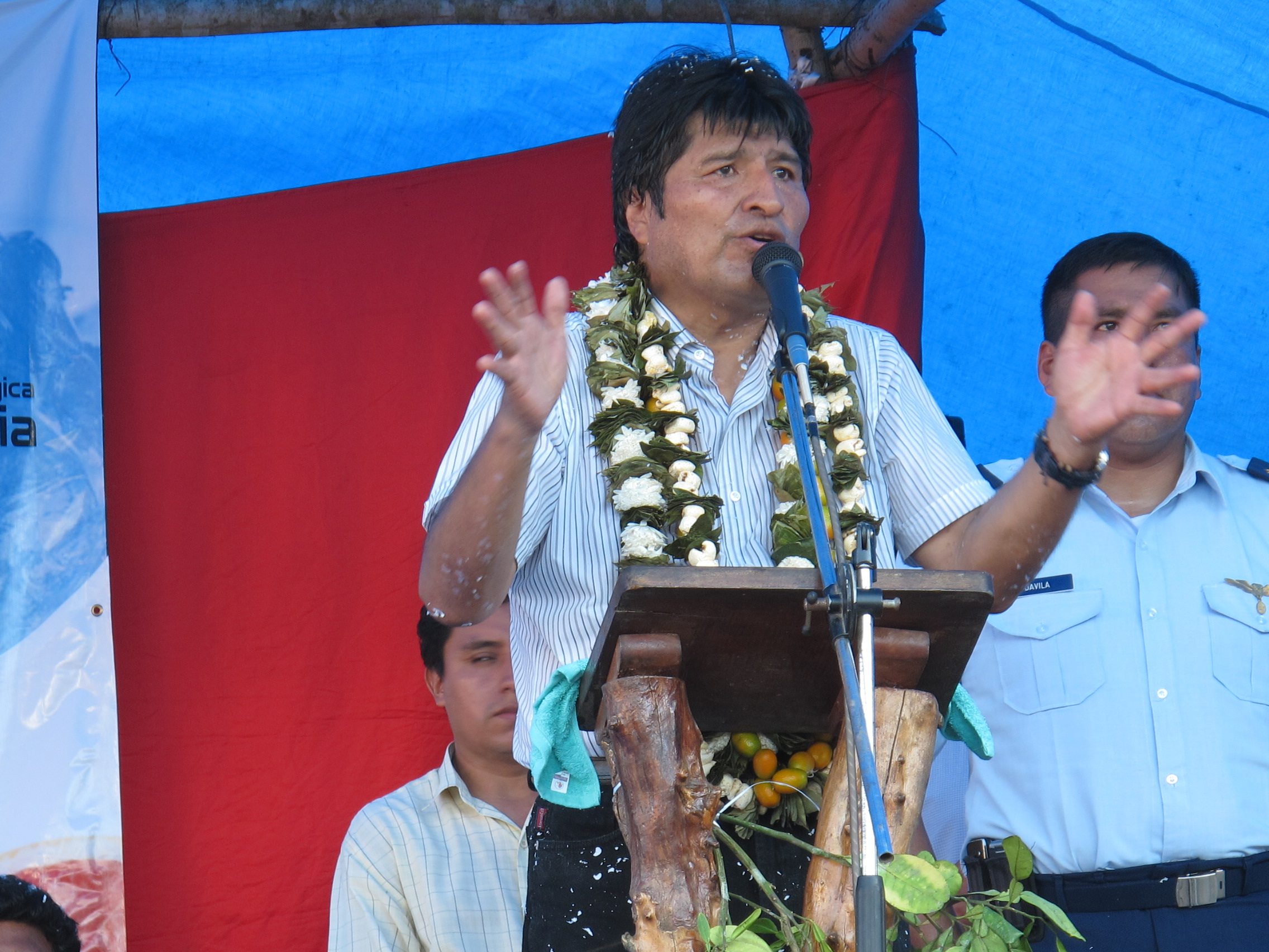 Photo of Evo Morales inaugurating a citrus processing plant near Villa Tunari, in the Chapare